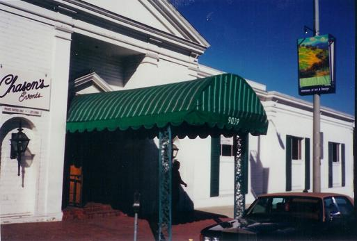 This is my picture. I took it in 1997.